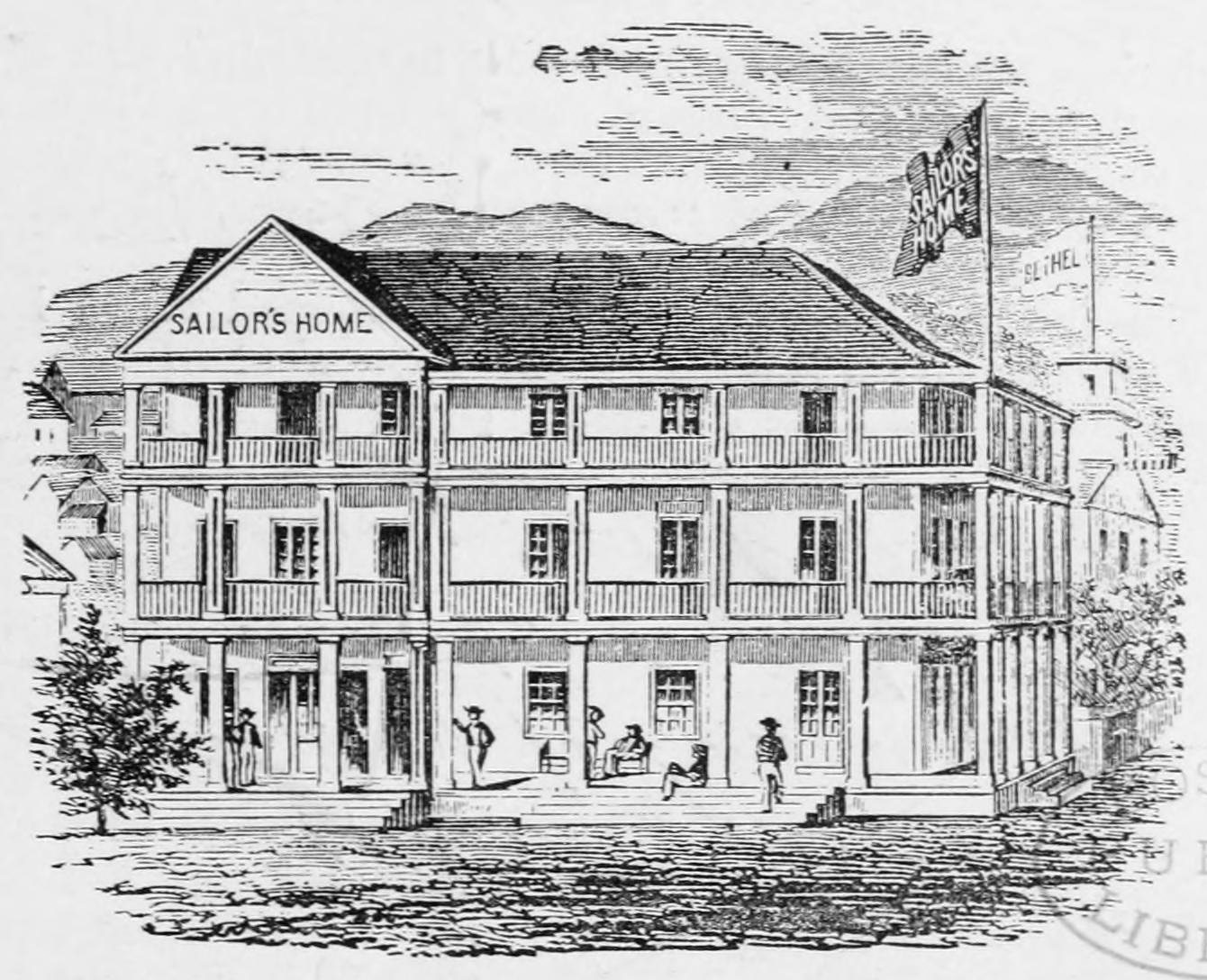 The Honolulu's sailor's home was founded in 1855 by Rev. Samuel C. Damon, for visiting merchant seamen. The gant stipulated: that no intoxicating liquors shall be drank on the premises", and "no women of lewd character admitted".